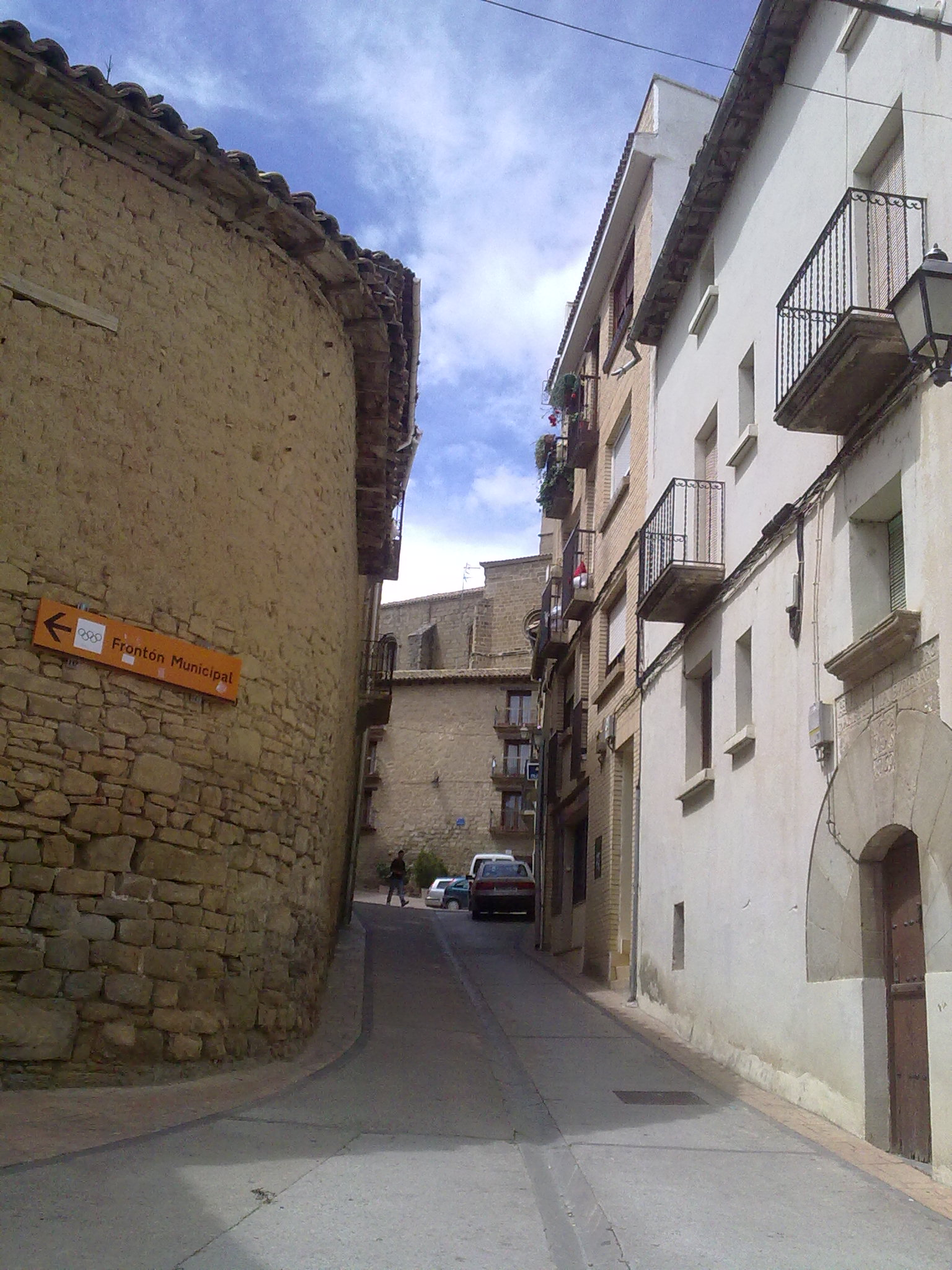 Streets of Kaseda.